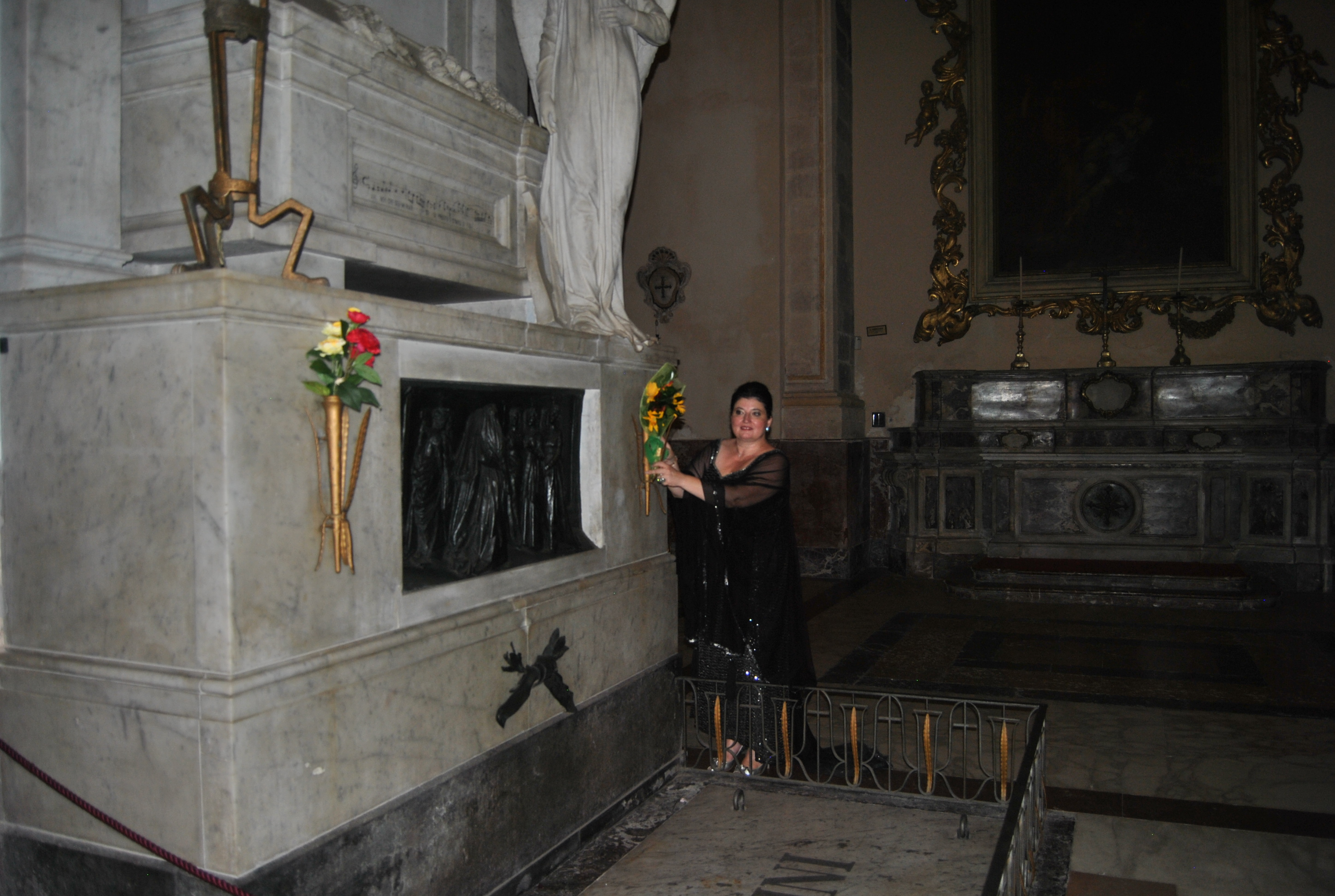 Dimitra Theodosiou